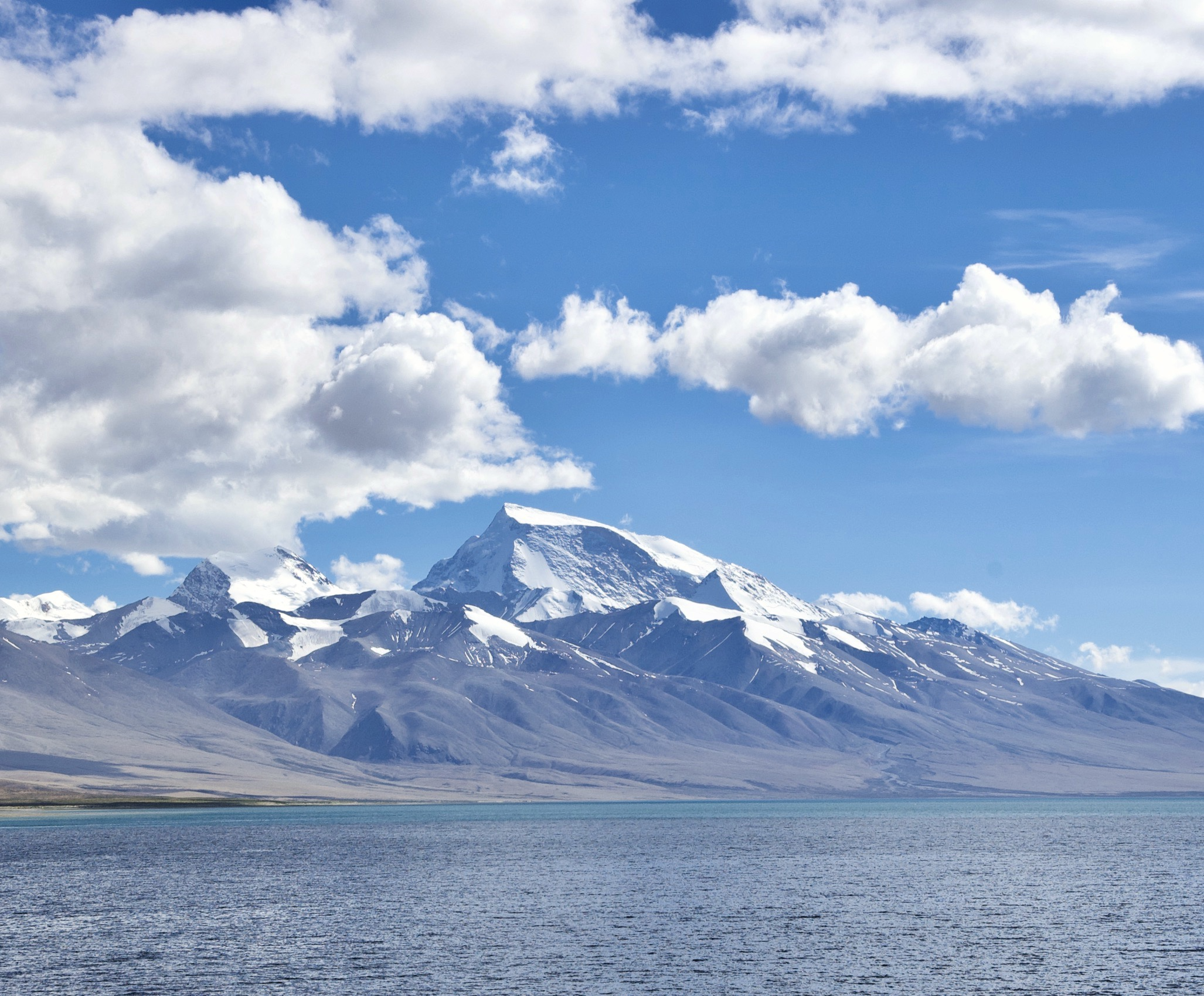 Gurla Mandhata seen from Seralung Gompa on Lake Manasarovar